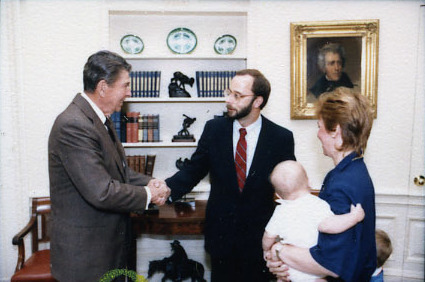 President Ronald Reagan and Charles Kupperman (2-14) Farewell Photo Op. With Charles Kupperman and Family George Shultz, Frank Carlucci, Jack Matlock, Kenneth Duberstein, and Howard Baker (15-17) Staff talking President Ronald Reagan, George Shultz, Frank Carlucci, Jack Matlock, Kenneth Duberstein, and Howard Baker (18-24) Meeting with George Shultz